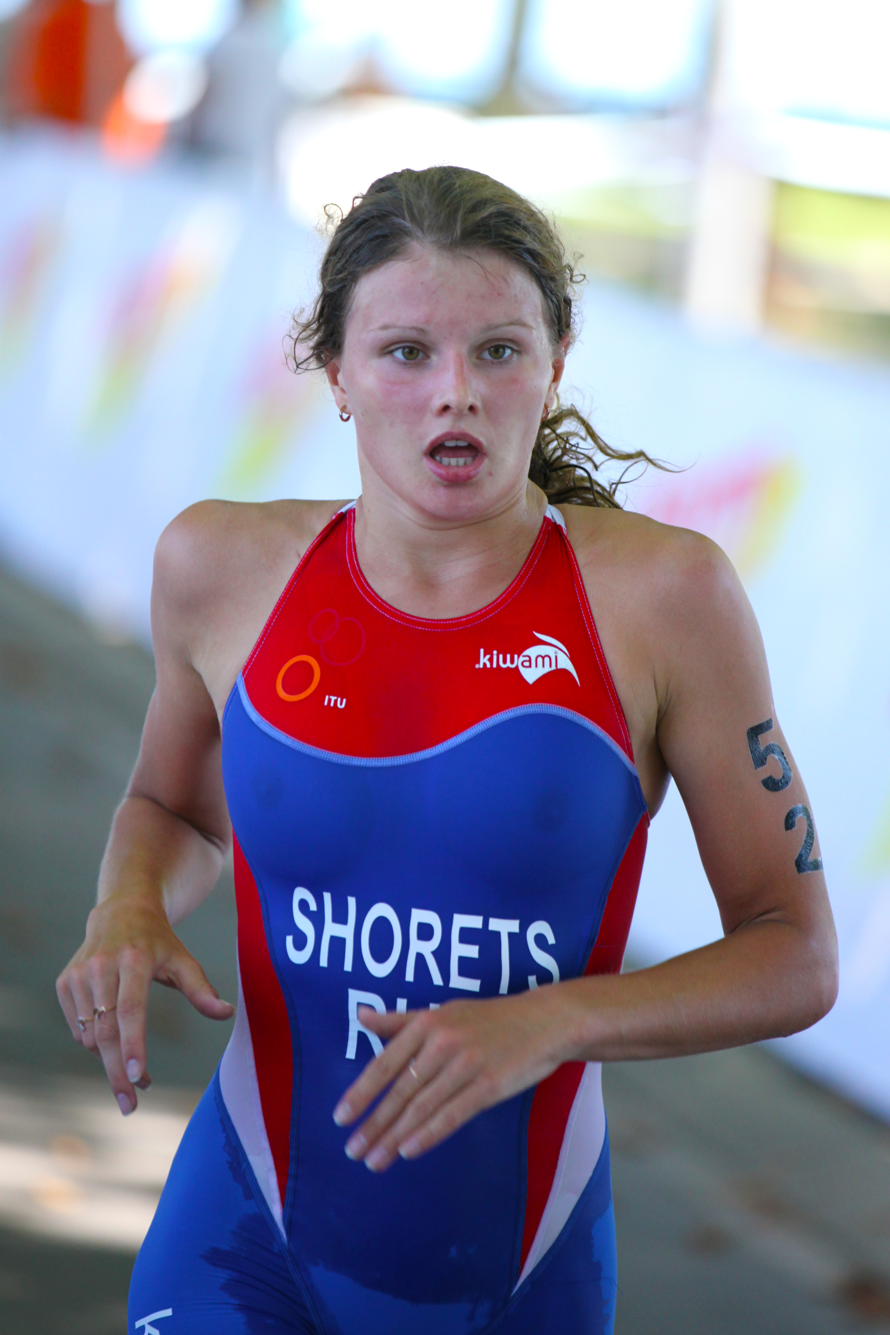 Mariya Shorets (Мария Сергеевна Шорец) at the Triathlon Elite Sprint World Championships in Lausanne.